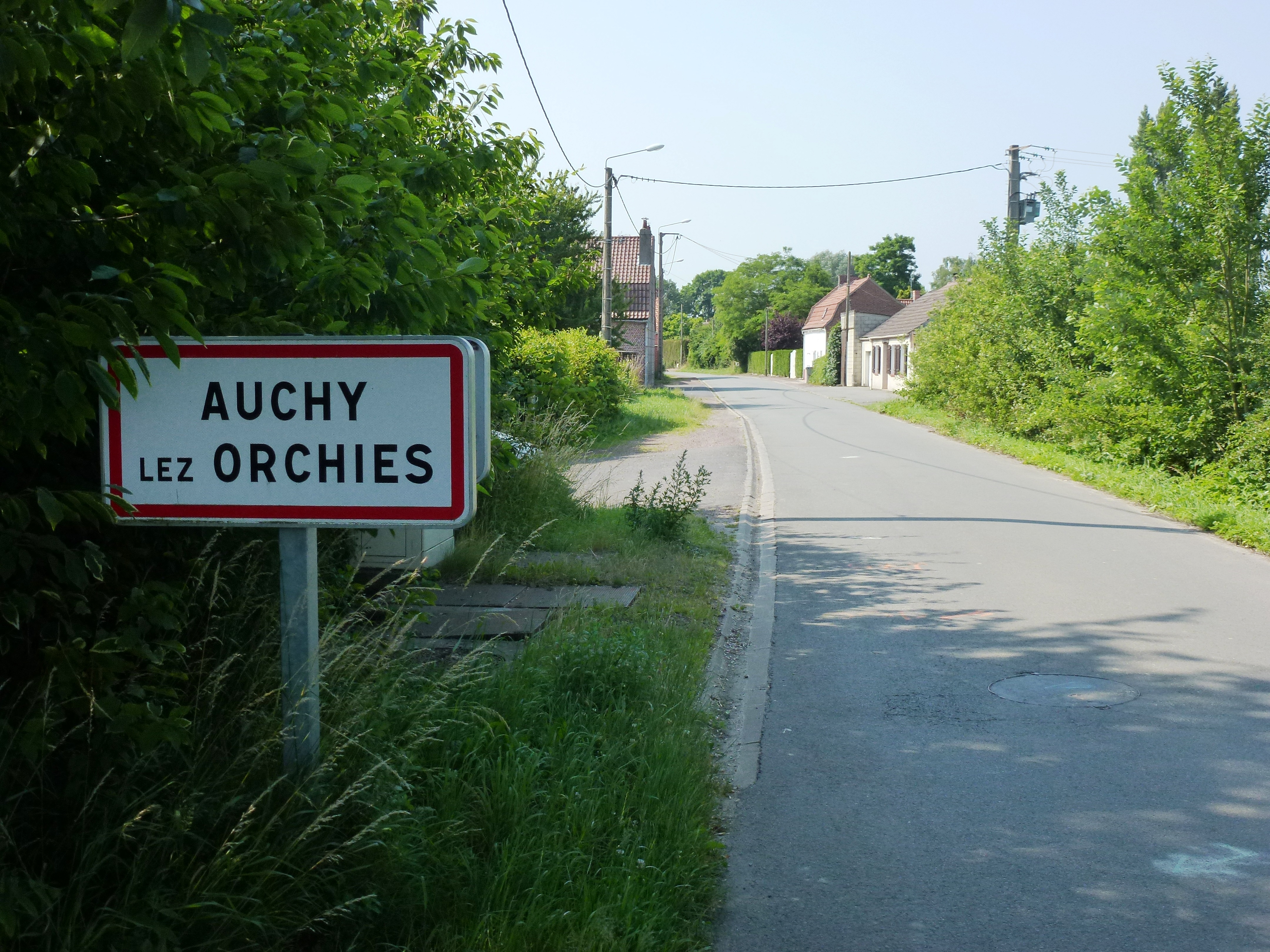 Auchy-lez-Orchies (Nord, Fr) city limit sign